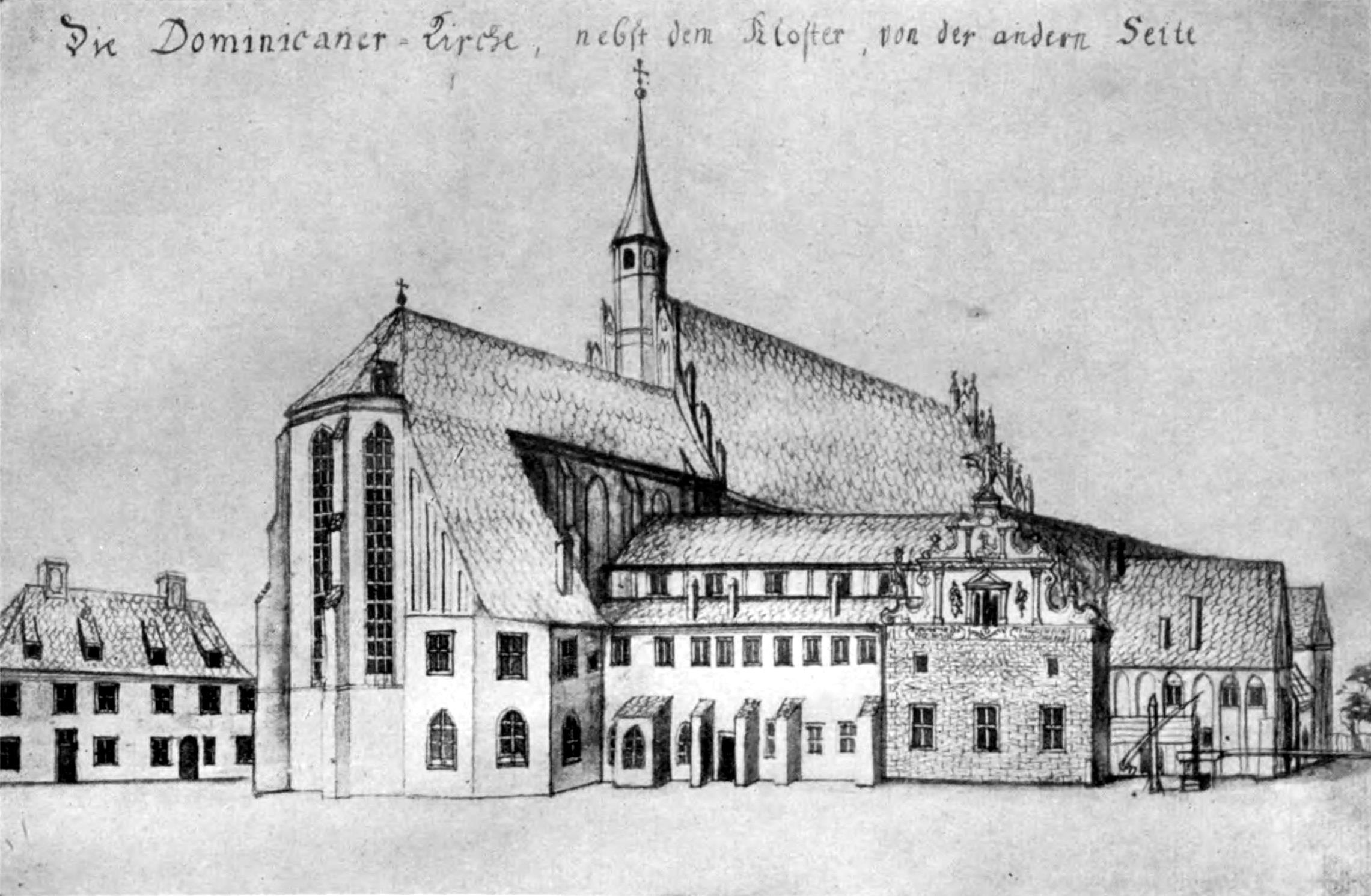 Toruń, church of St. Nicholas and dominican cloister, view from north-east according to drawing by G.F. Steiner from 1743